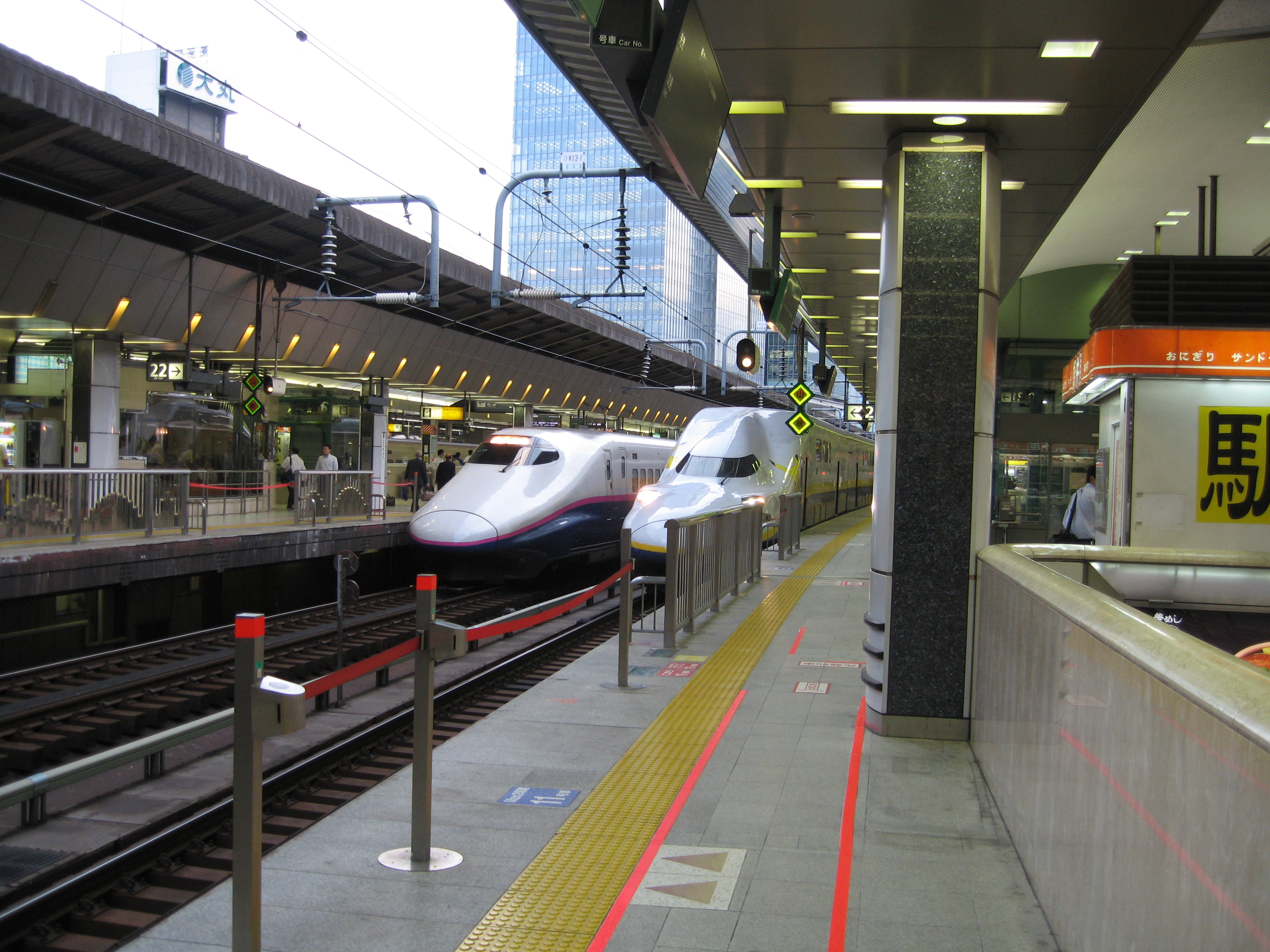 Shinkansen high speed train, Japan